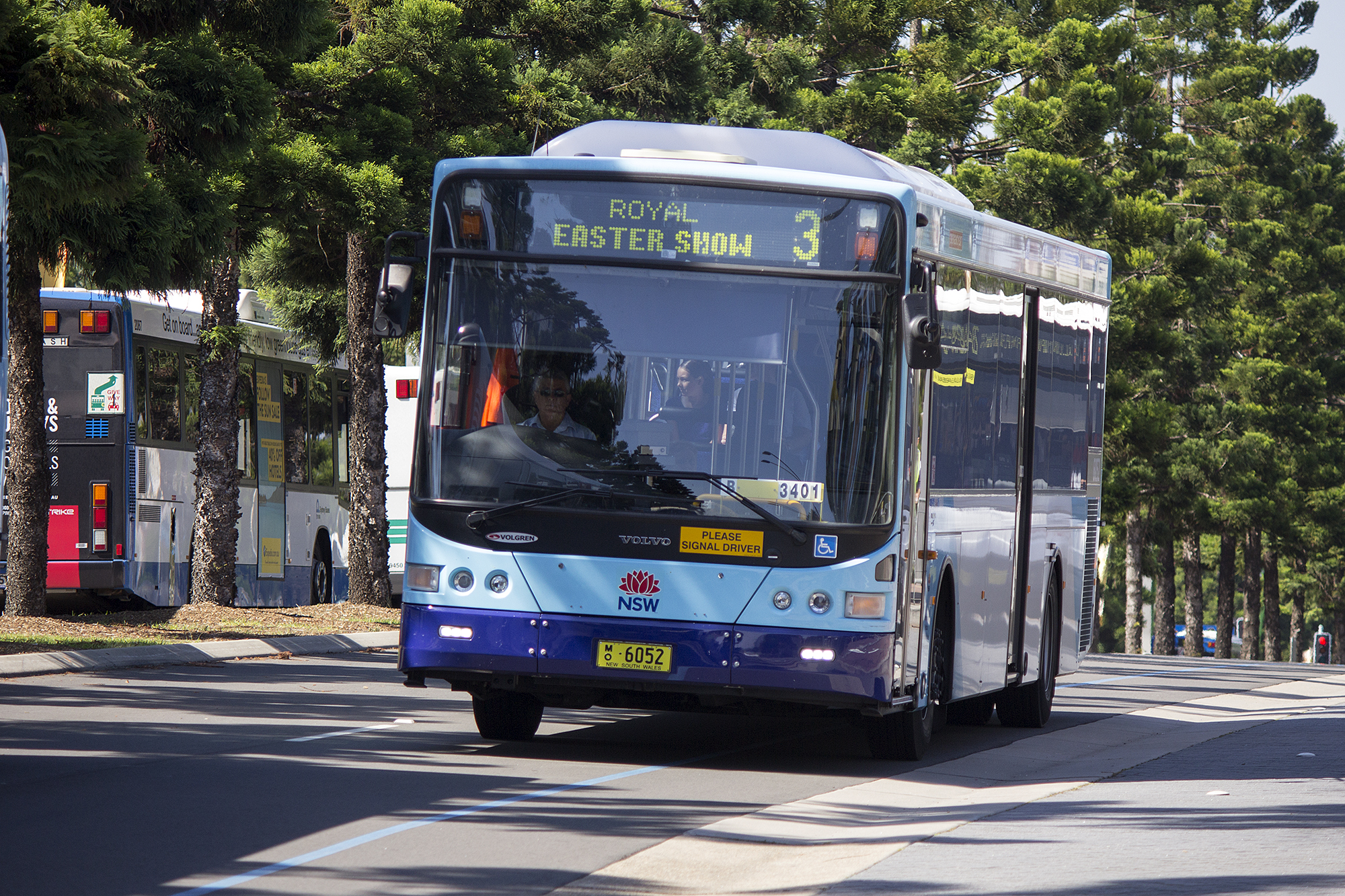 Westbus (mo 6052) Volgren 'CR228L' bodied Volvo B7RLE in Transport NSW livery on Olympic Boulevard at Sydney Olympic Park.